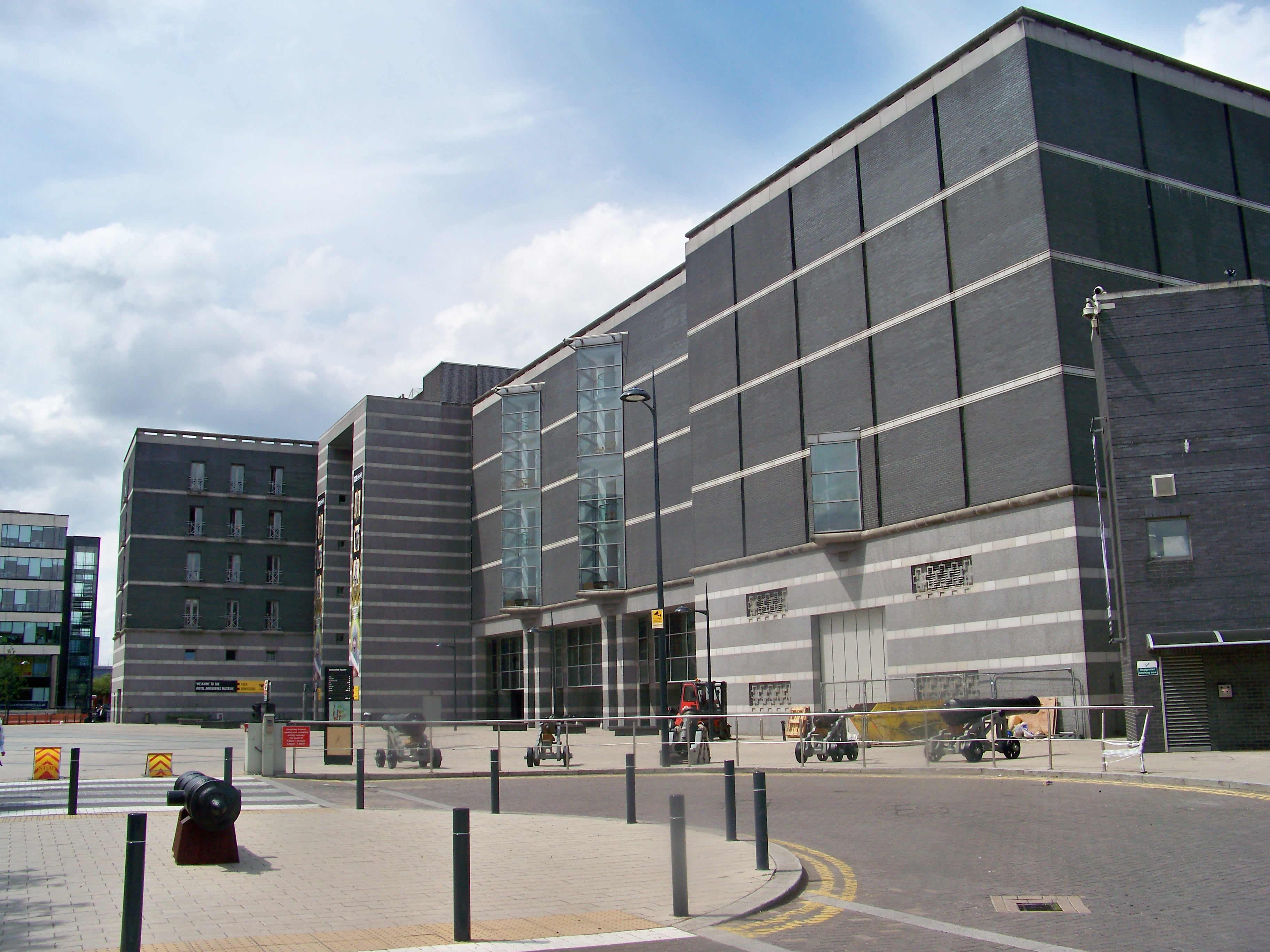 The Royal Armouries Museum in Leeds, West Yorkshire. Taken from Armouries Drive at Armouries Square — on the afternoon of Thursday the 24th of June 2010.